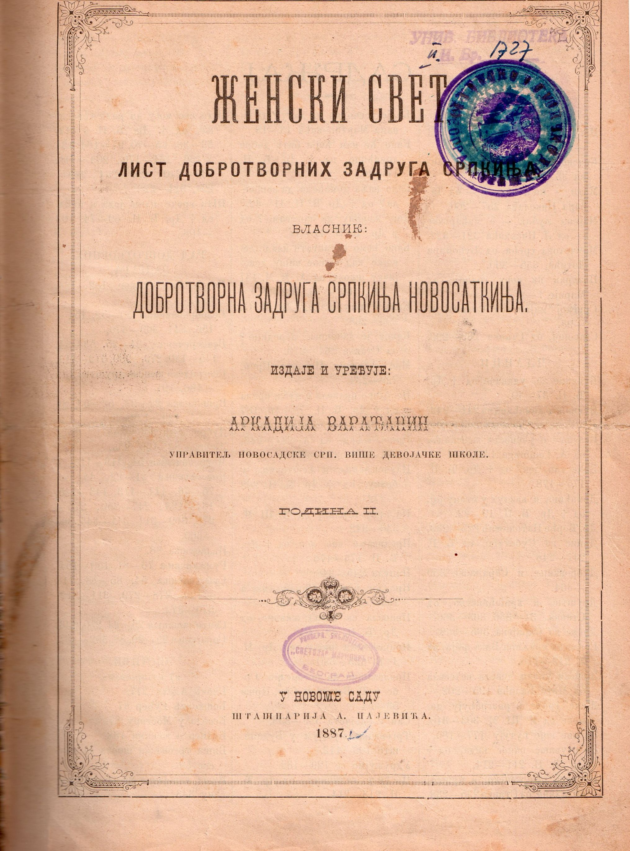 Front page Ženski svet, magazine, for 1887, Novi Sad